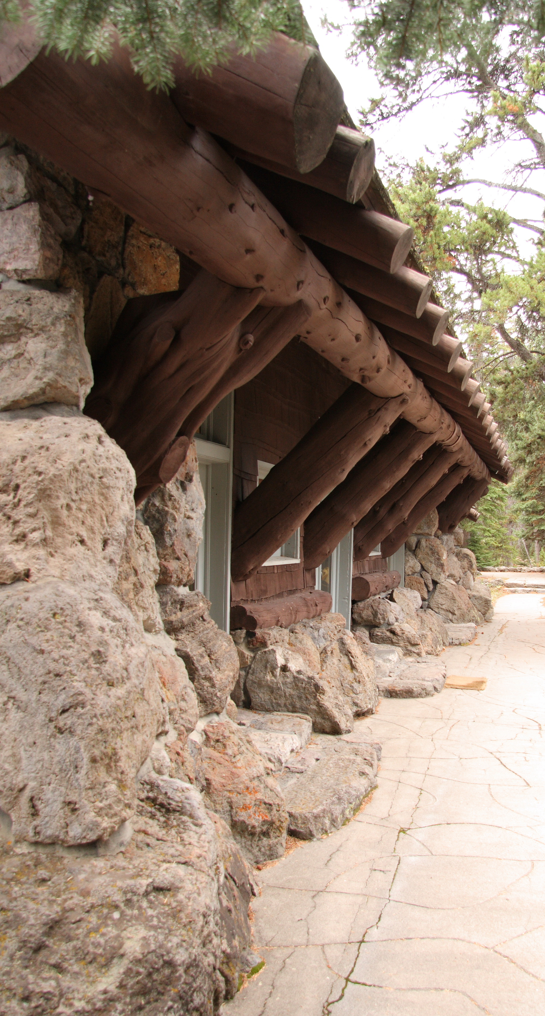 The Fishing Bridge Museum at Yellowstone National Park, Wyomning, USA